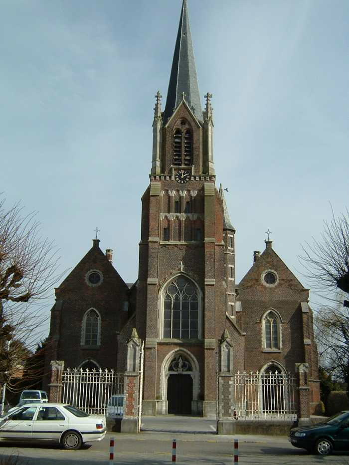 Saint Cordula Church, Schoten, Belgium.